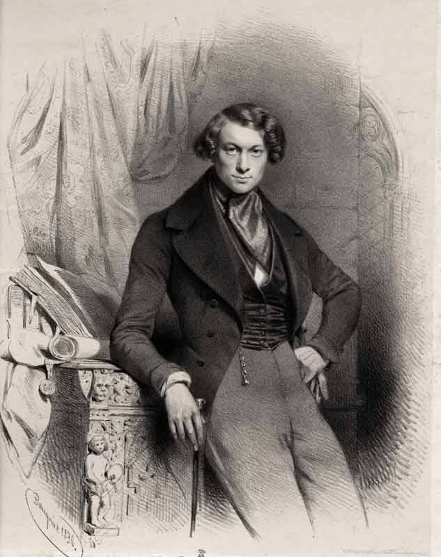 Portrait of Nicaise de Keyser (1813-1887), Belgian painter of portraits and historical tableaux